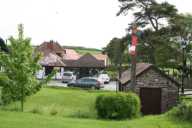 Kentisbury: Blackmoor Gate. The Old Station House Inn. This was once a station on the Lynton & Barnstaple Railway which was closed before World War II. It is now a public house. Looking south-south-west